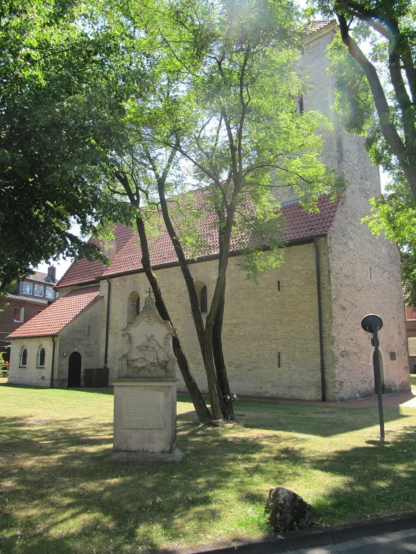 The old St. Clemens church, built in 1160 in Münster-Hiltrup